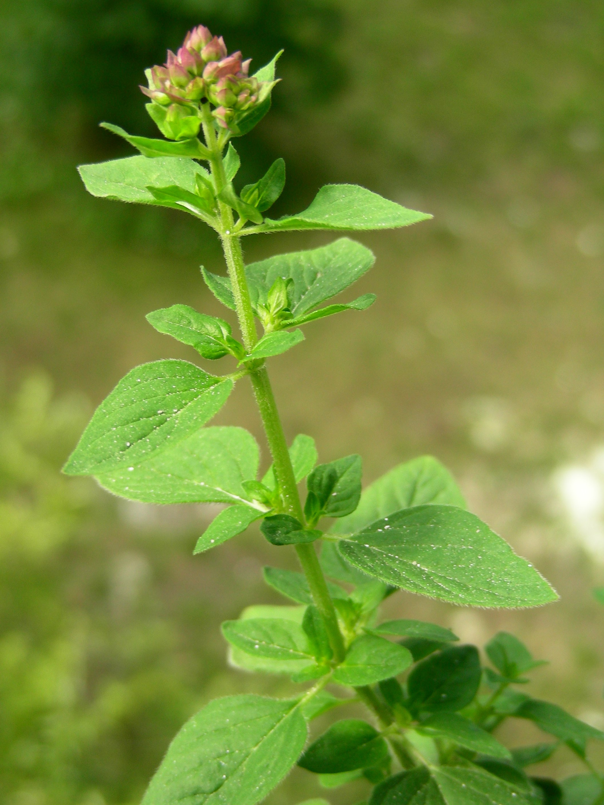 Oregano